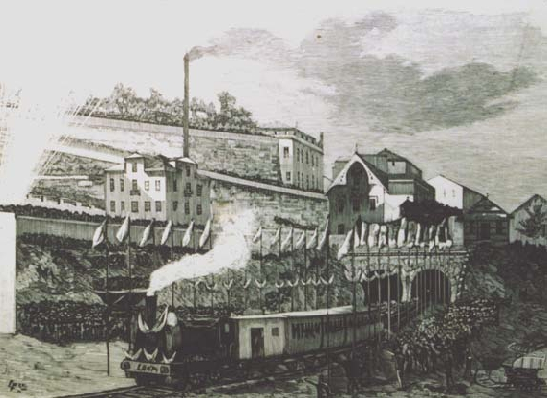 Inauguration ceremony of the Rossio Tunnel, in Portugal, on April 8th, 1889. This tunnel only entered service in June 1889, with the Lisboa-Rossio Railway Station. This illustration was first published in the portuguese magazine "Occidente", on April 21st, 1889.